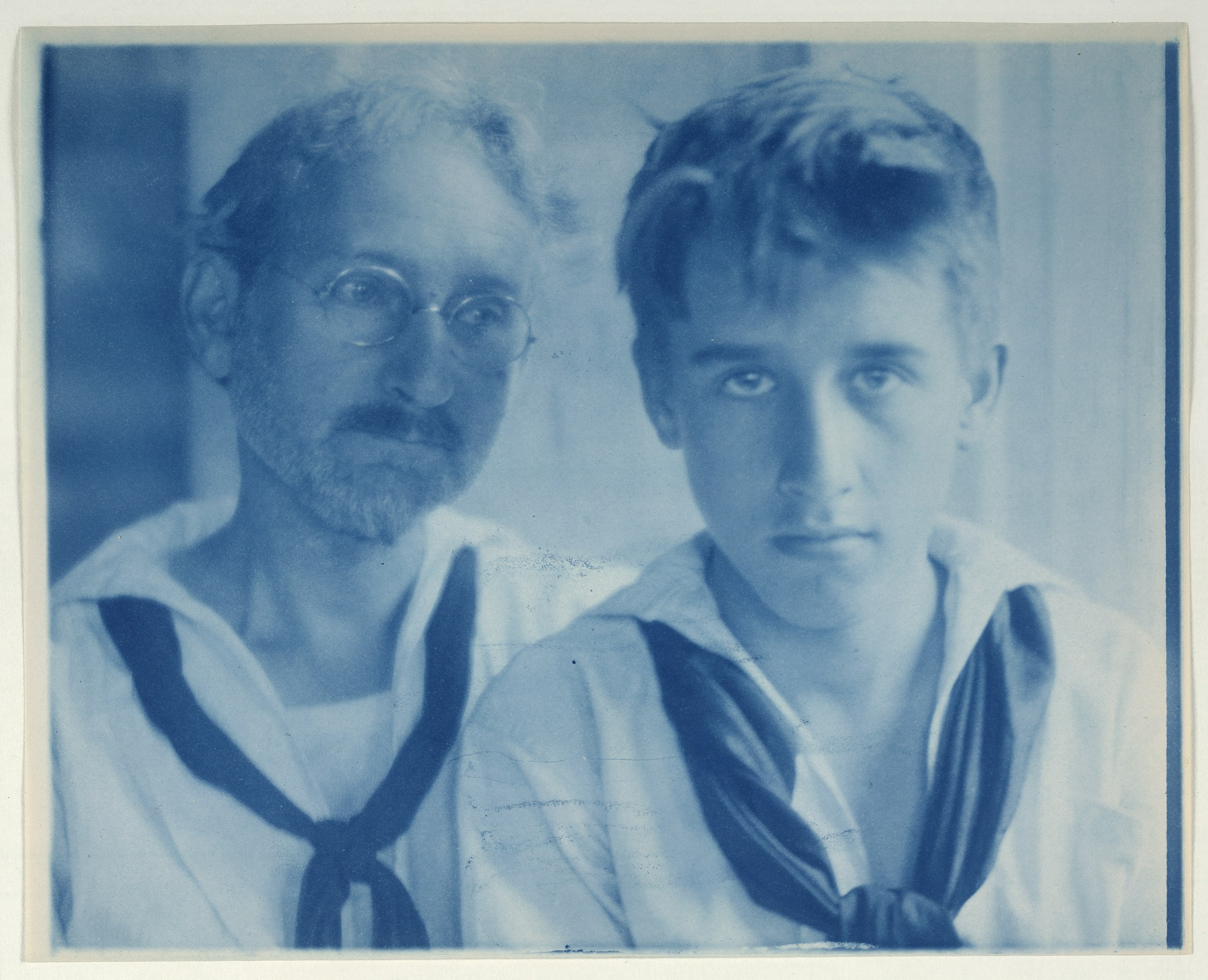 Title: F.H. Day and Maynard White in sailor suits, portrait Abstract/medium: 1 photographic print : cyanotype.